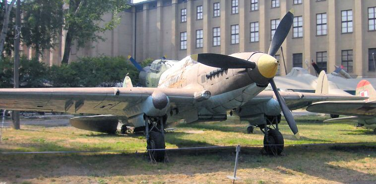 Ilyushin Il-2 bearing markings of the Polish Air Force, as featured in the Museum of the Polish Army